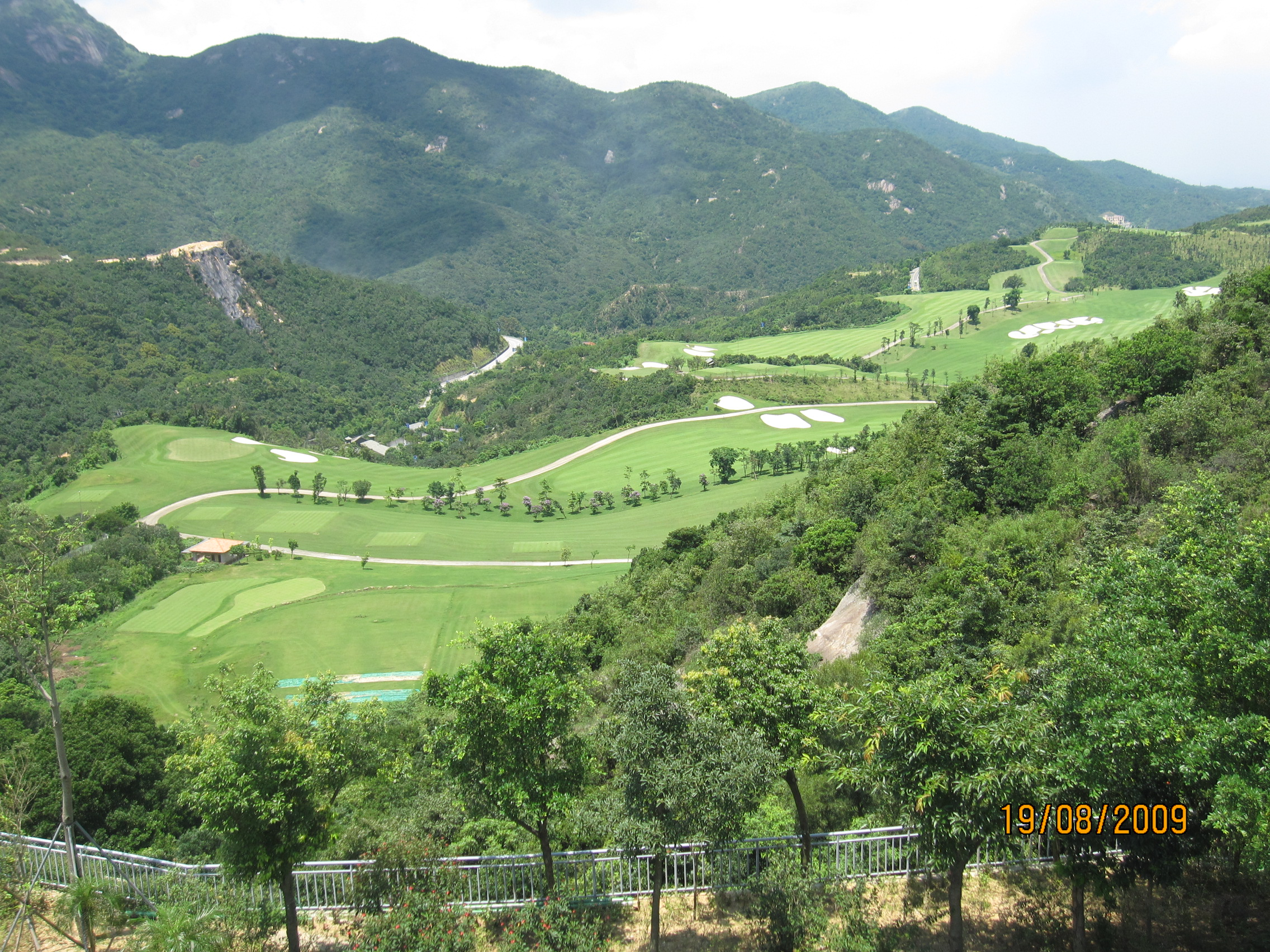 A golf course in OCT East, Shenzhen taken in 2009